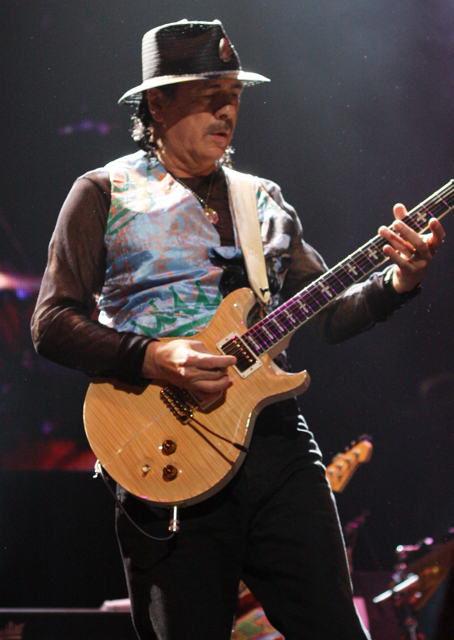 Carlos Santana Acer Arena